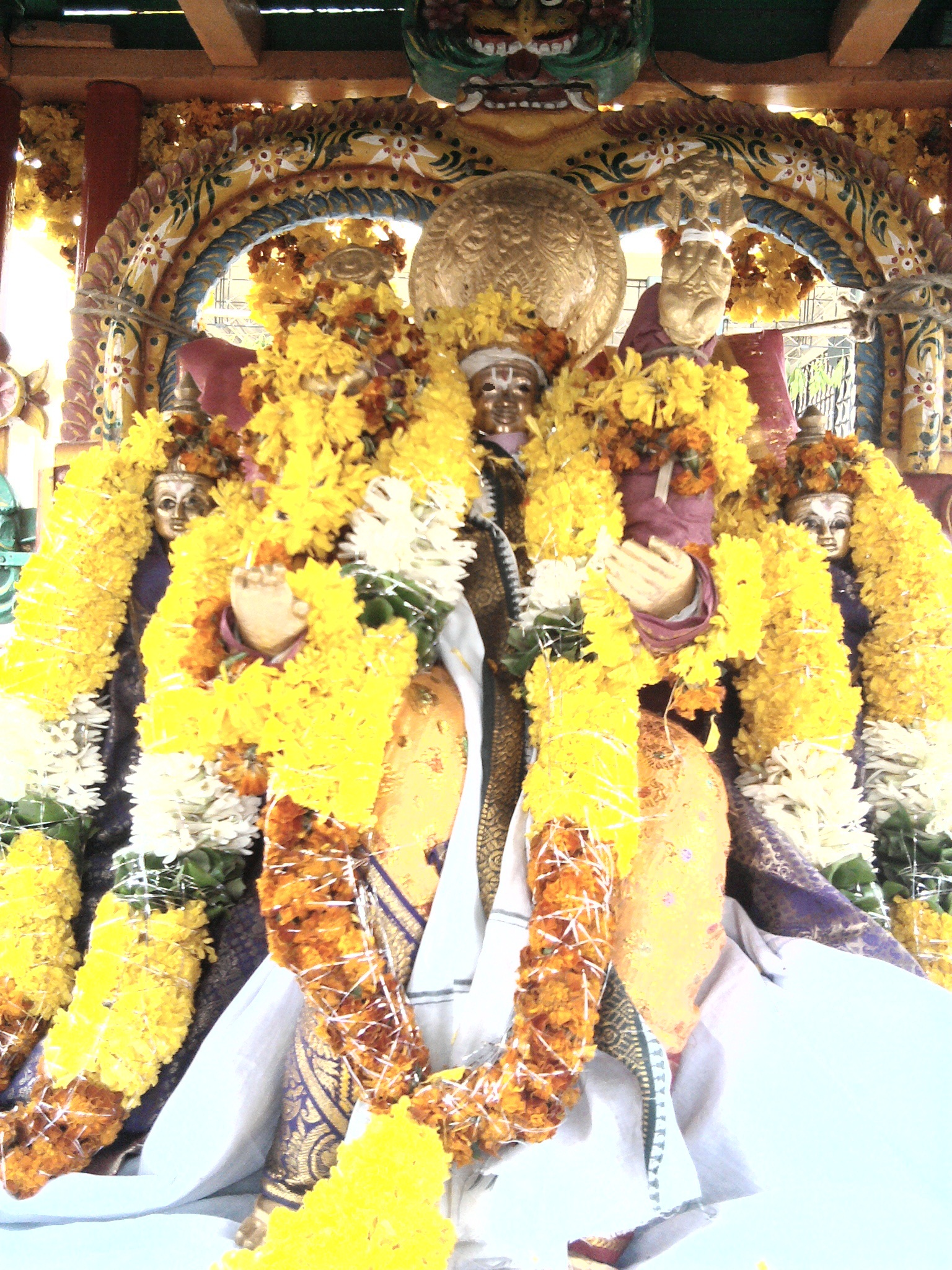 Chenakesava swami idol